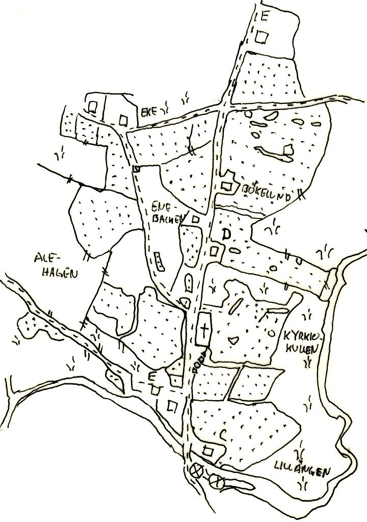 Drawing from cadastral map of Soderakra from the year 1800.